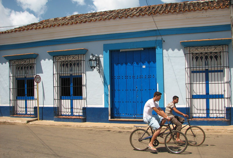 Wilder - my own stock